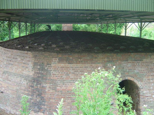 Llanymynech Hoffmann Lime kiln Top of Hoffmann lime kiln at Llanymynech heitage area. Firing of the kiln was done from the top as can be seen from the figure in the distance.